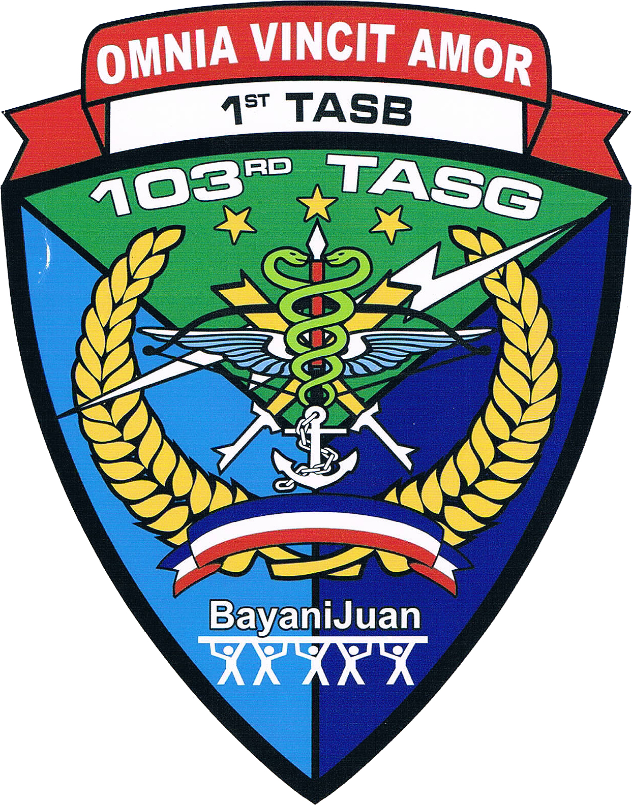 103 TASG Unit Seal.